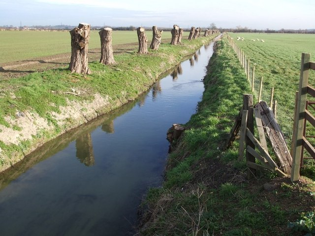 River Ouzel & pollarded trees